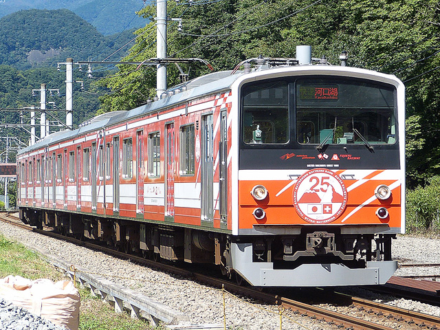 Fujikyu 6000 series EMU set 6501 in special red and white livery to mark the 25th anniversary of the signing of a sister railway agreement with the Matterhorn Gotthard Bahn in Switzerland